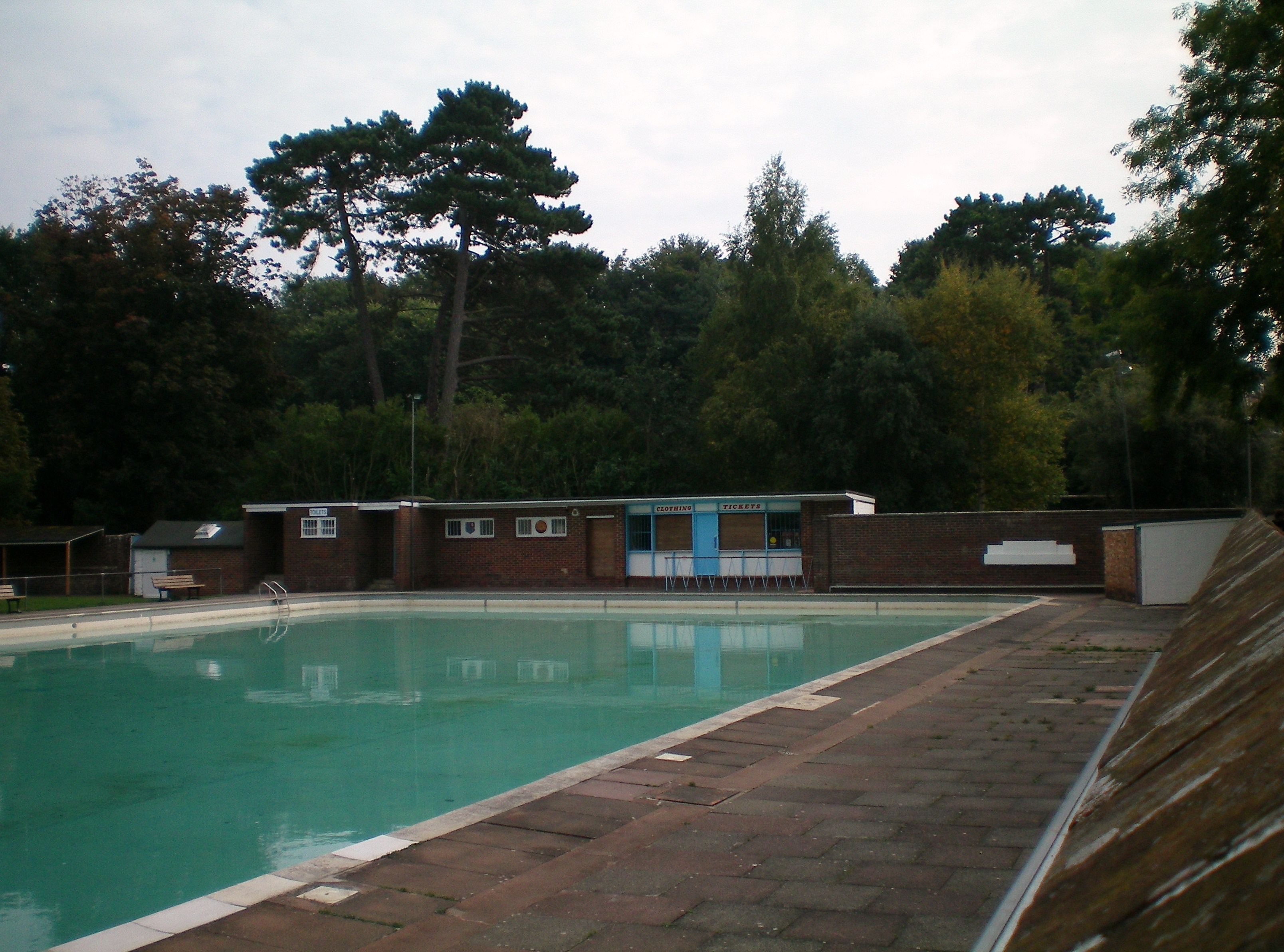 The Pells Swimming Pool on the northern side of Lewes, East Sussex, England. Said to be the oldest outdoor public pool in England.